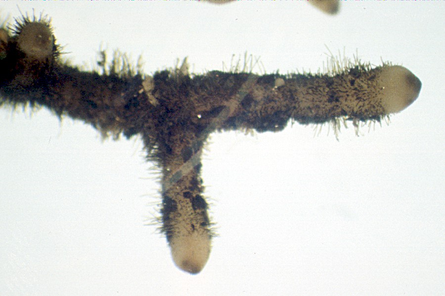 Light micrograph of a preserved specimen of the rhizome of Psilotum nudum